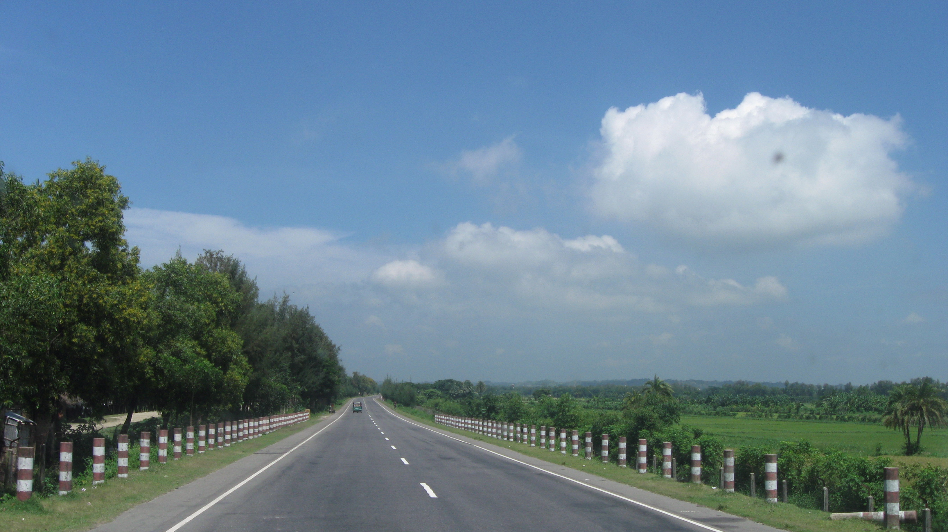 Chittagong bypass connecting the Chittagong port facilities with N1 through Patenga.